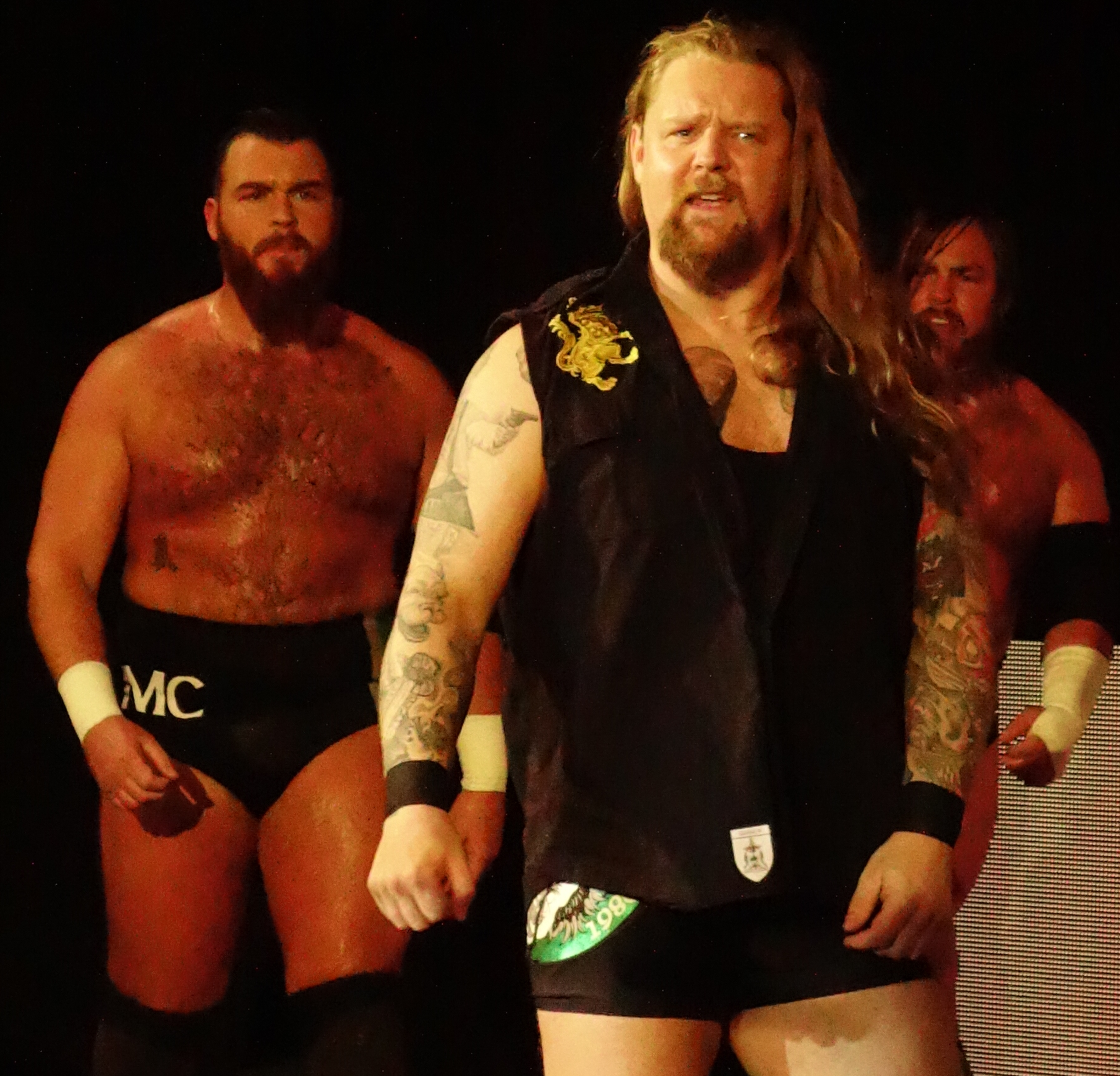 The professional wrestling stable, Gallus (Wolfgang, Joe Coffey and Mark Coffey) on April 6, 2019 at a WWE event..